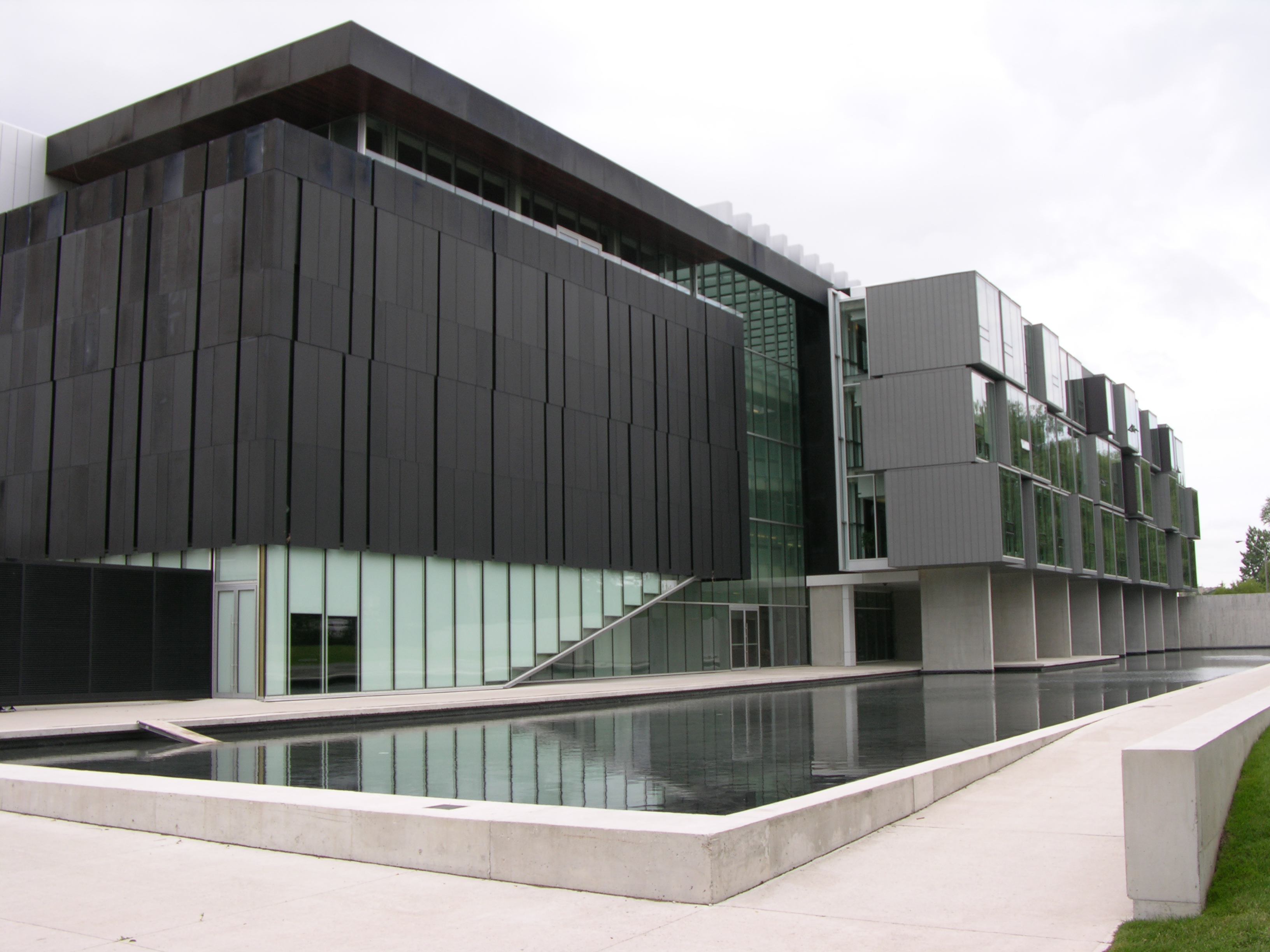 Perimeter Institute for Theoretical Physics